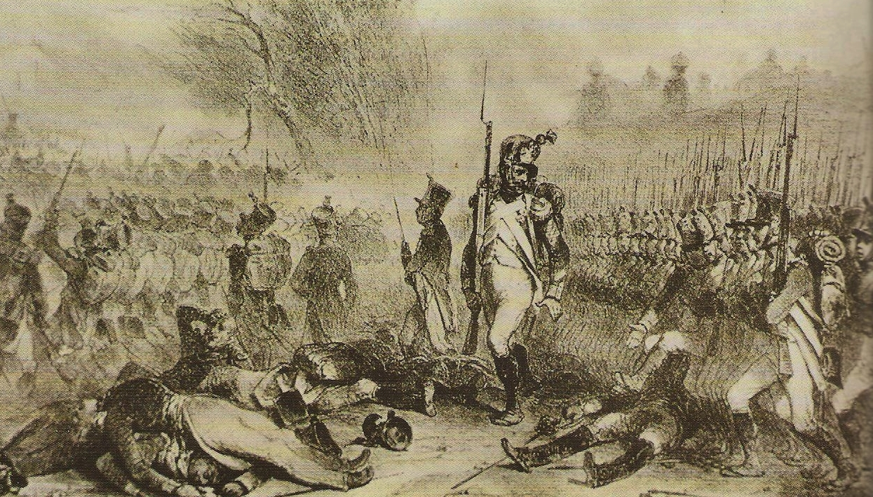 French infantry (Napoleonic wars)